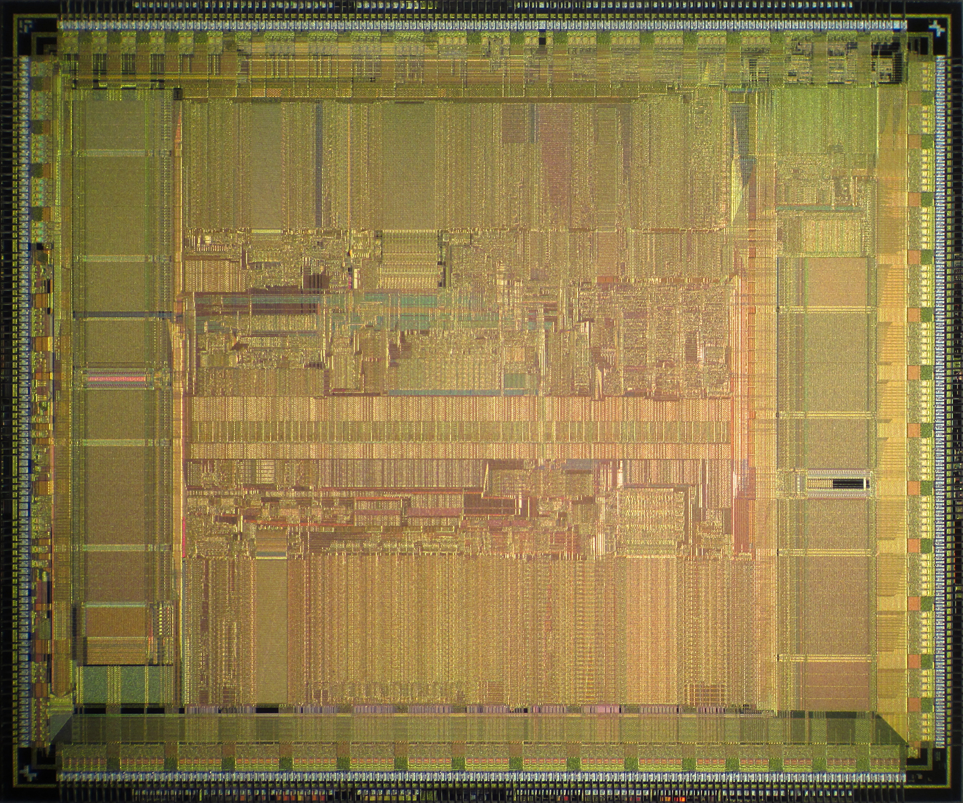 Die shot of DEC Alpha 21064 (EV4S) microprocessor. Package markings are 21064-CA 166 and 21-35023-14 part number, and DEC chip number is DC290A.